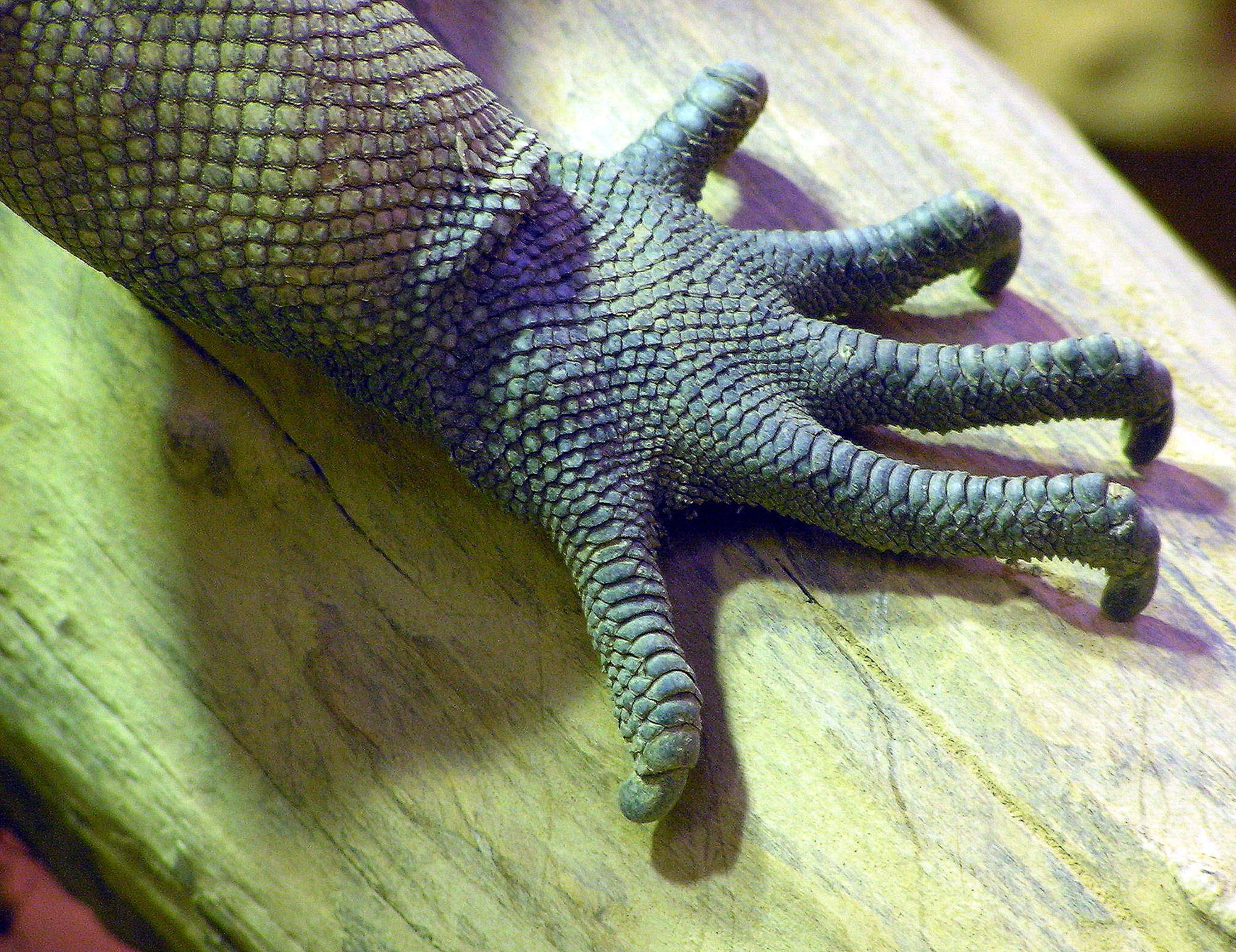 Rhino iguana (Cyclura cornuta) claw, at Bristol Zoo, Bristol, England.